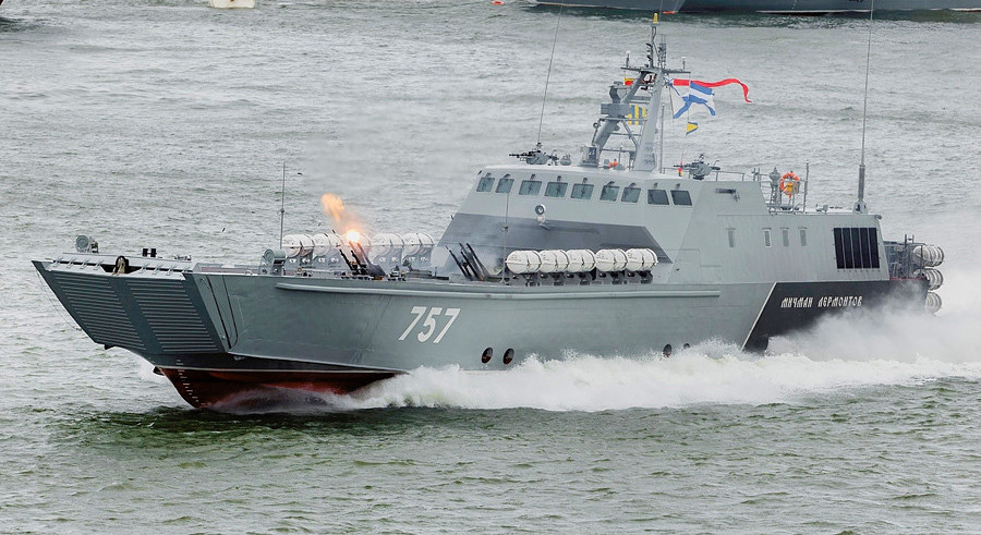 Michman Lermontov firing MTPU-1 in Baltiysk.